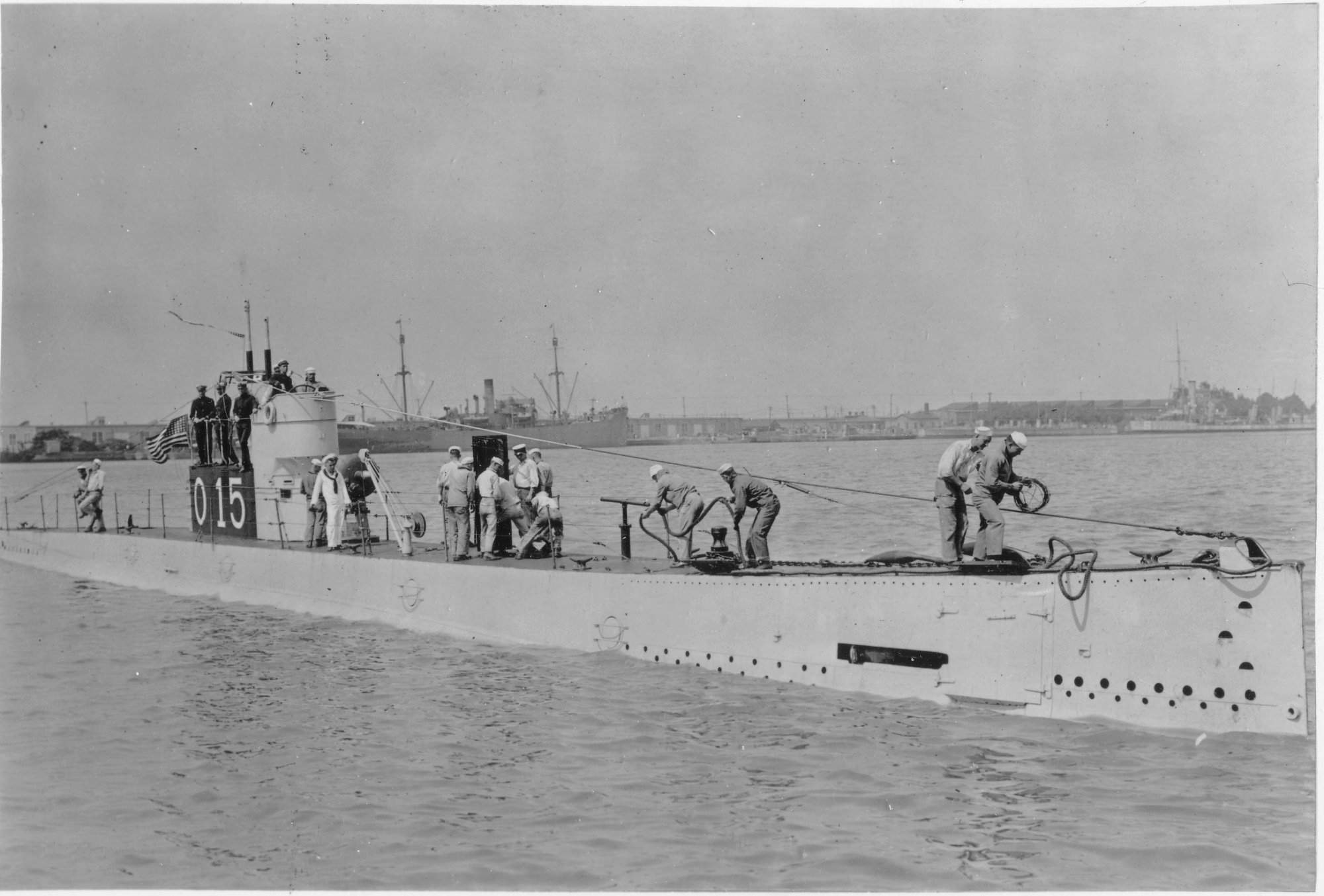 United States Navy submarine at the Philadelphia Navy Yard, Philadelphia, Pennsylvania.